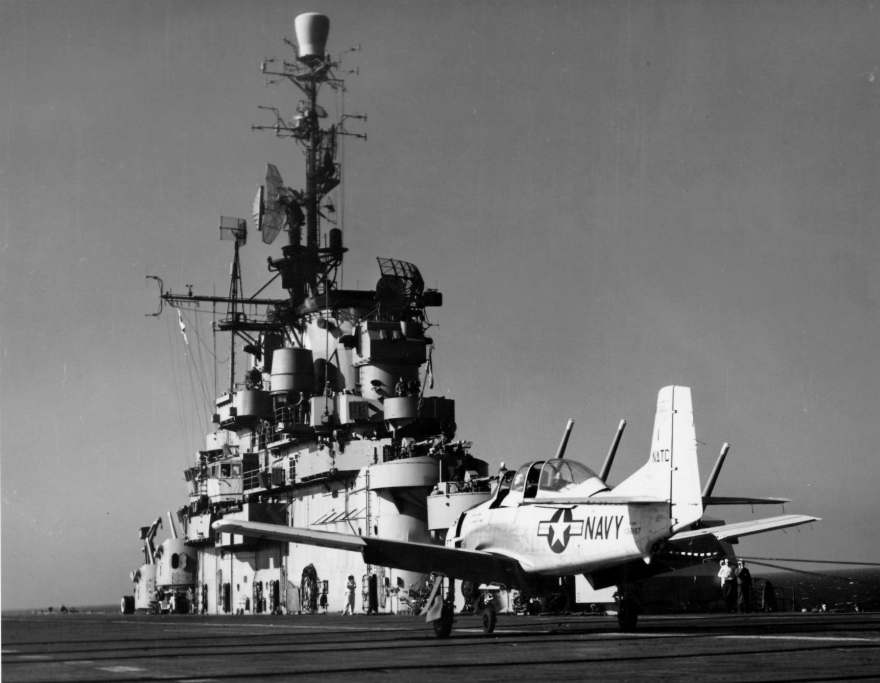 A U.S. Navy North American T-28C Trojan (BuNo 138187) assigned to Naval Air Test Center (NATC) Patuxent River, Maryland (USA), after landing on the aircraft carrier USS Tarawa (CVA-40), in 1955. This aircraft had been built as a standard T-28B without arrester hook, but was obviously fitted with a hook, probably as a prototype for the arrester hook-equipped T-28C.BuNo 138187 was one of two Prototypes that were built as "C" models and was not converted, it was produced at NAA Ingleside Calf plant and flown to NATC for trials.